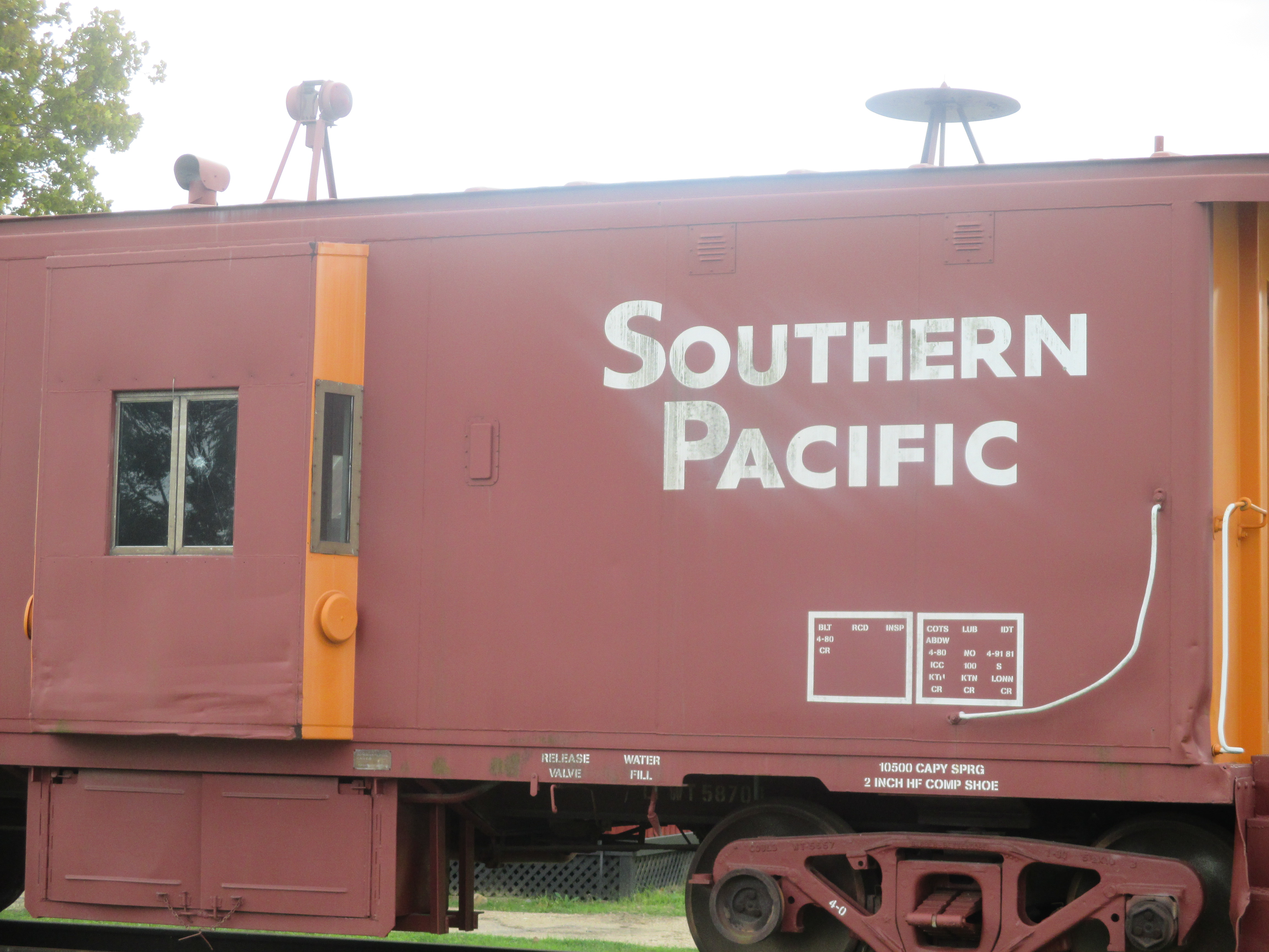 I took photo of Southern Pacific railway car in Flatonia, TX, with Canon camera.